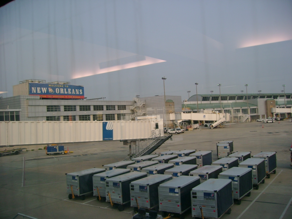 Louis Armstrong New Orleans International Airport